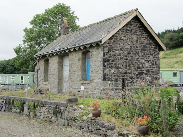 New Radnor Station The station was at the end of the New Radnor line which stopped running in 1952. When it was built it was due to continue further but due to lack of funds this was the last station. All that is left now is the station building and some of the platform. My thanks go to the owner of the Station Caravan site for letting me take the photos.